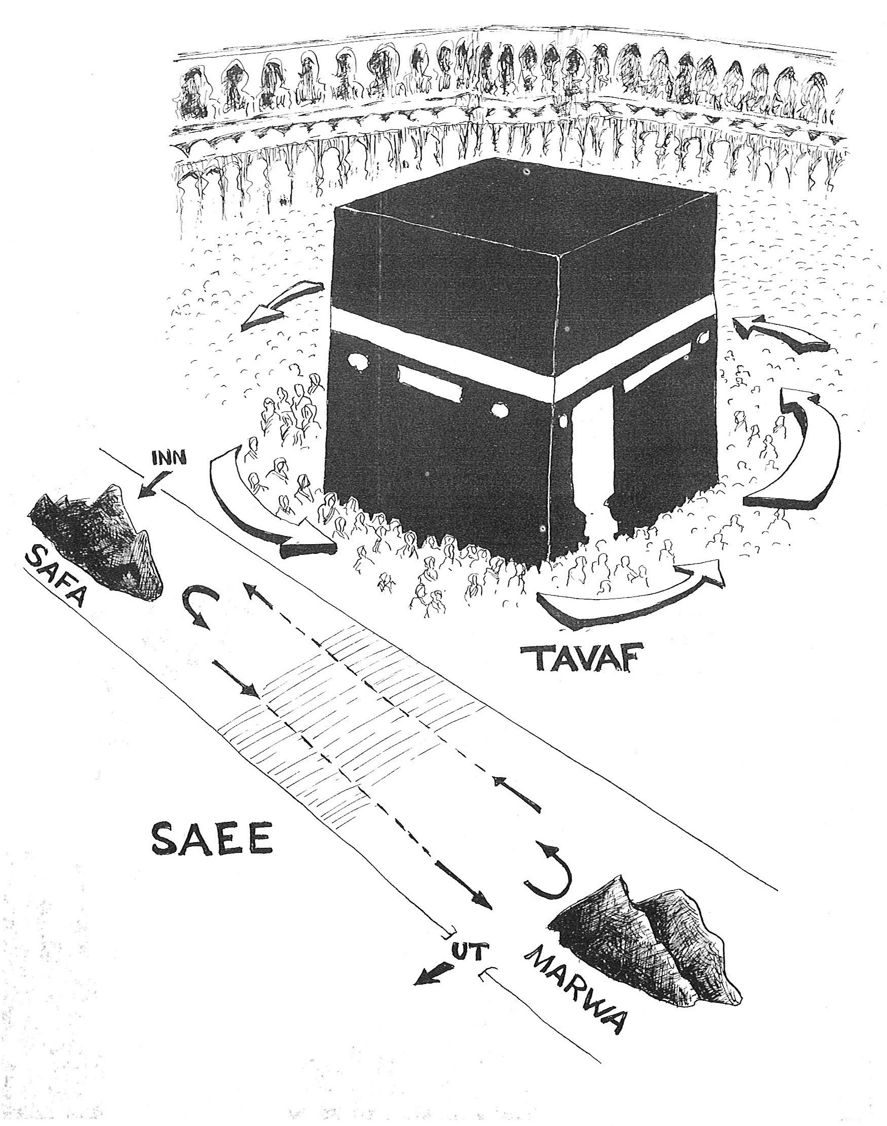 The Kaaba in Mecca, and the directions of the ritual walk during Hajj